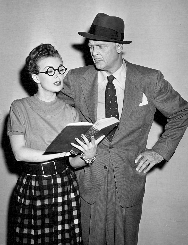 Photo of Gale Storm and Charles Farrell from the television comedy My Little Margie.